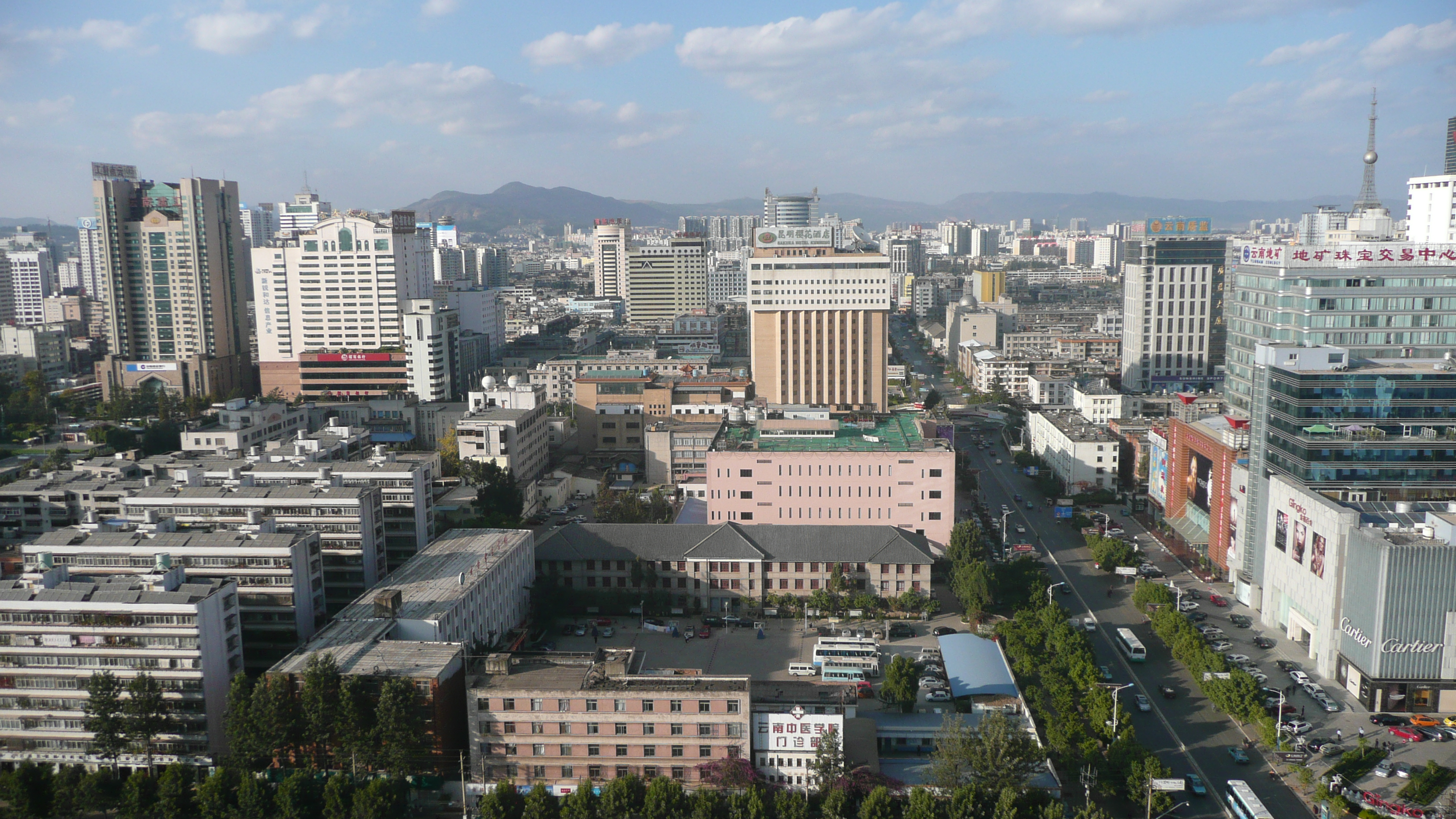 Kunming - Capital of the Chinese province Yunnan